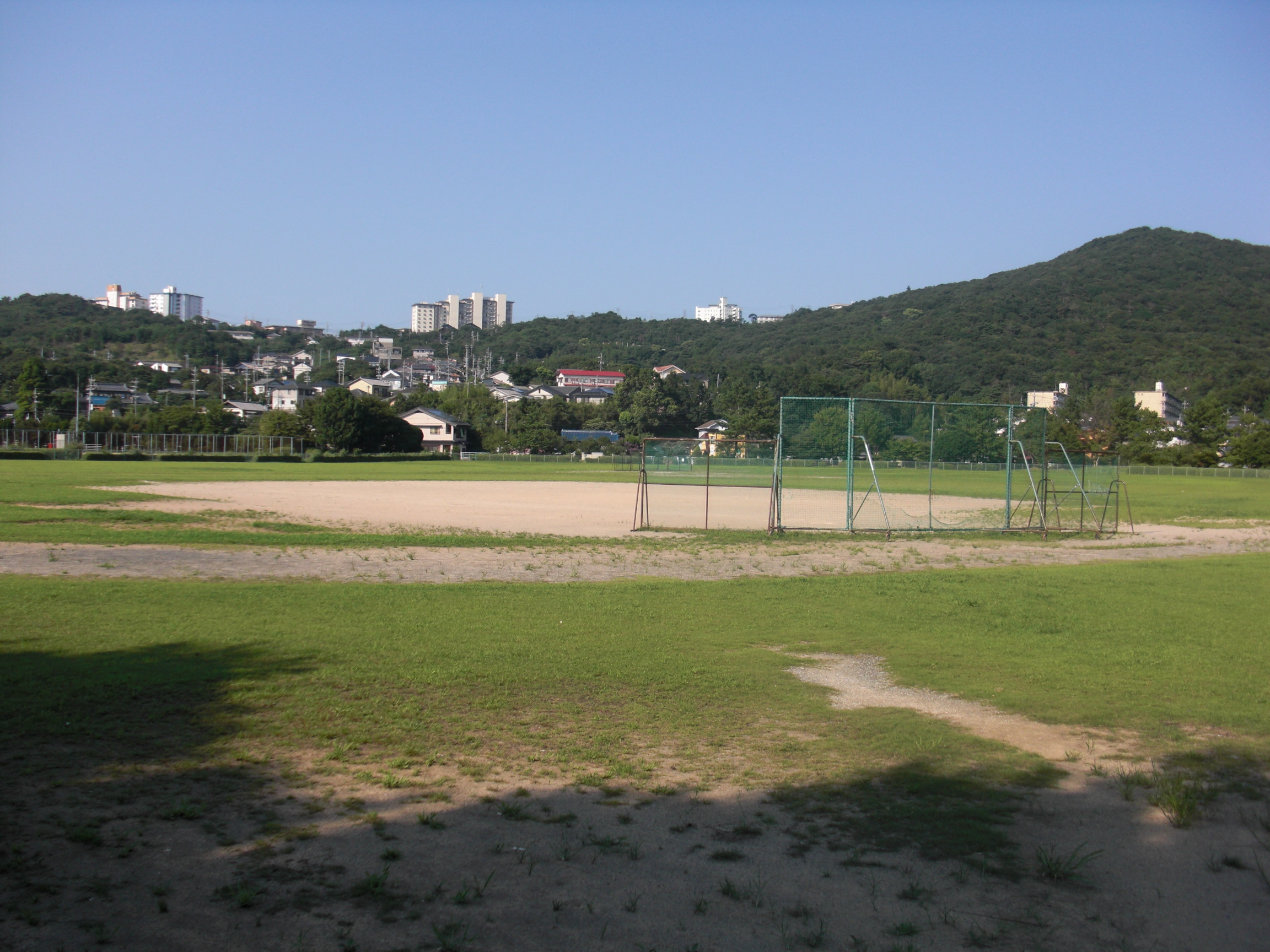 This is the Toba Central Park muiti ground in Toba, Mie, Japan.